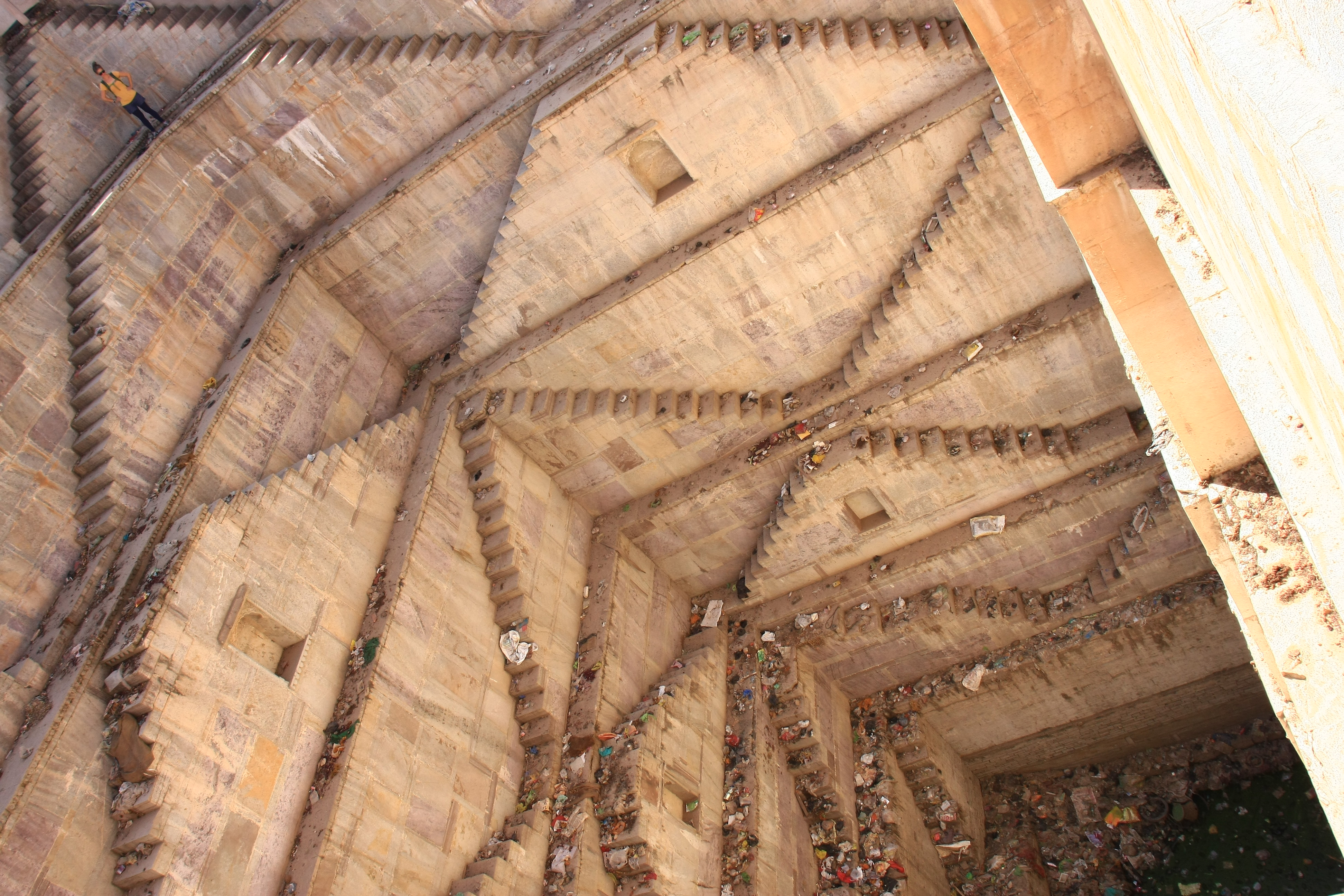 West stepwell of the Nagar Sagar Kund, Bundi, Rajasthan, India.